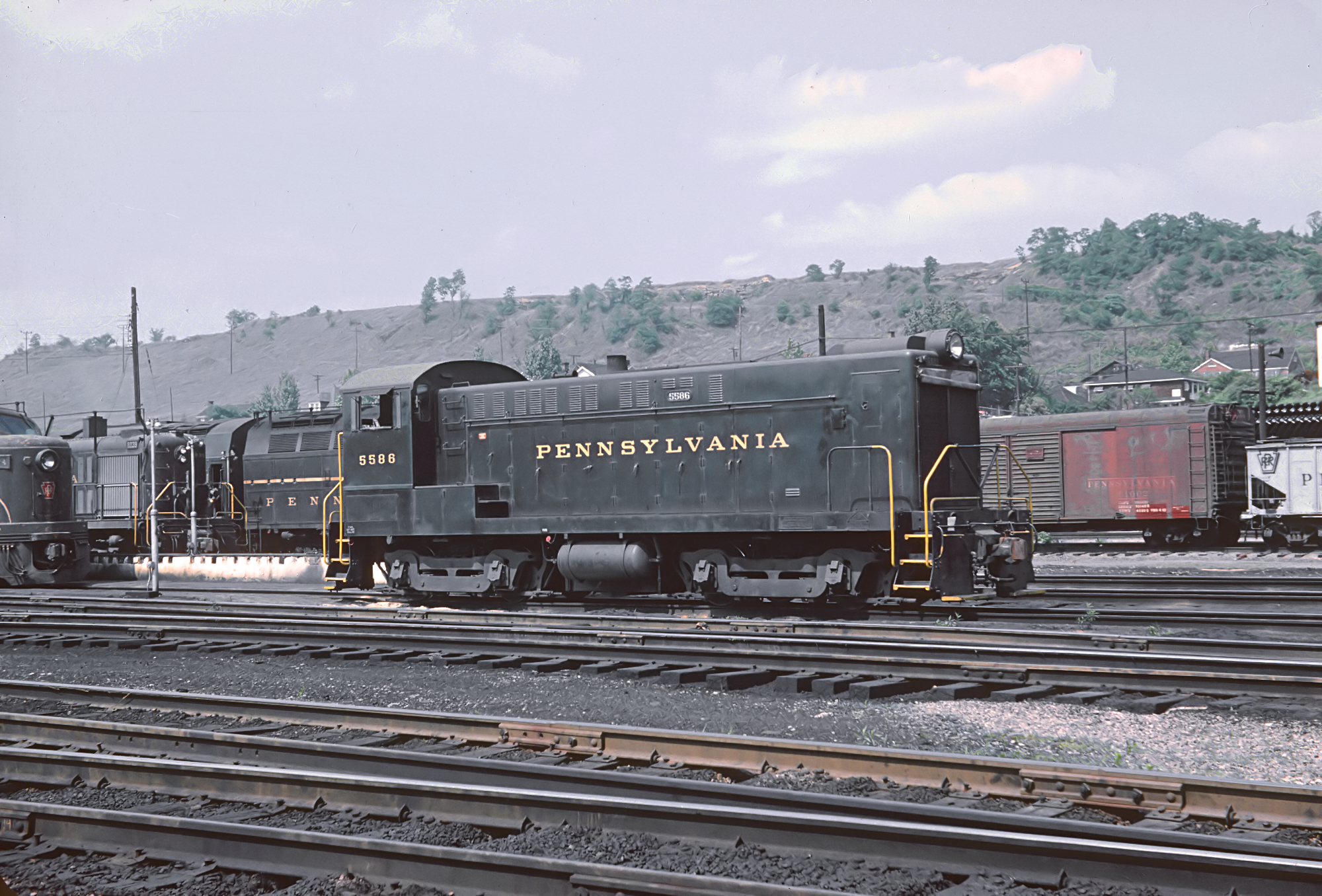 Pennsylvania Railroad Baldwin DS 4-4-10 #5586 in Conway Yard, Conway, Pennsylvania at an unknown date